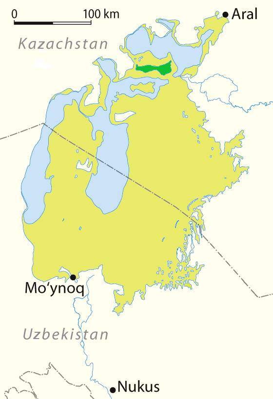 former Kokaral Island (green) on the Aral Sea, as in 2008, colored by Julo new land (lake shrinked between 1960 and 2008) - yellow Based on File:Aralsee.gif, drawn by NordNordWest using NASA images United States National Imagery and Mapping Agency data